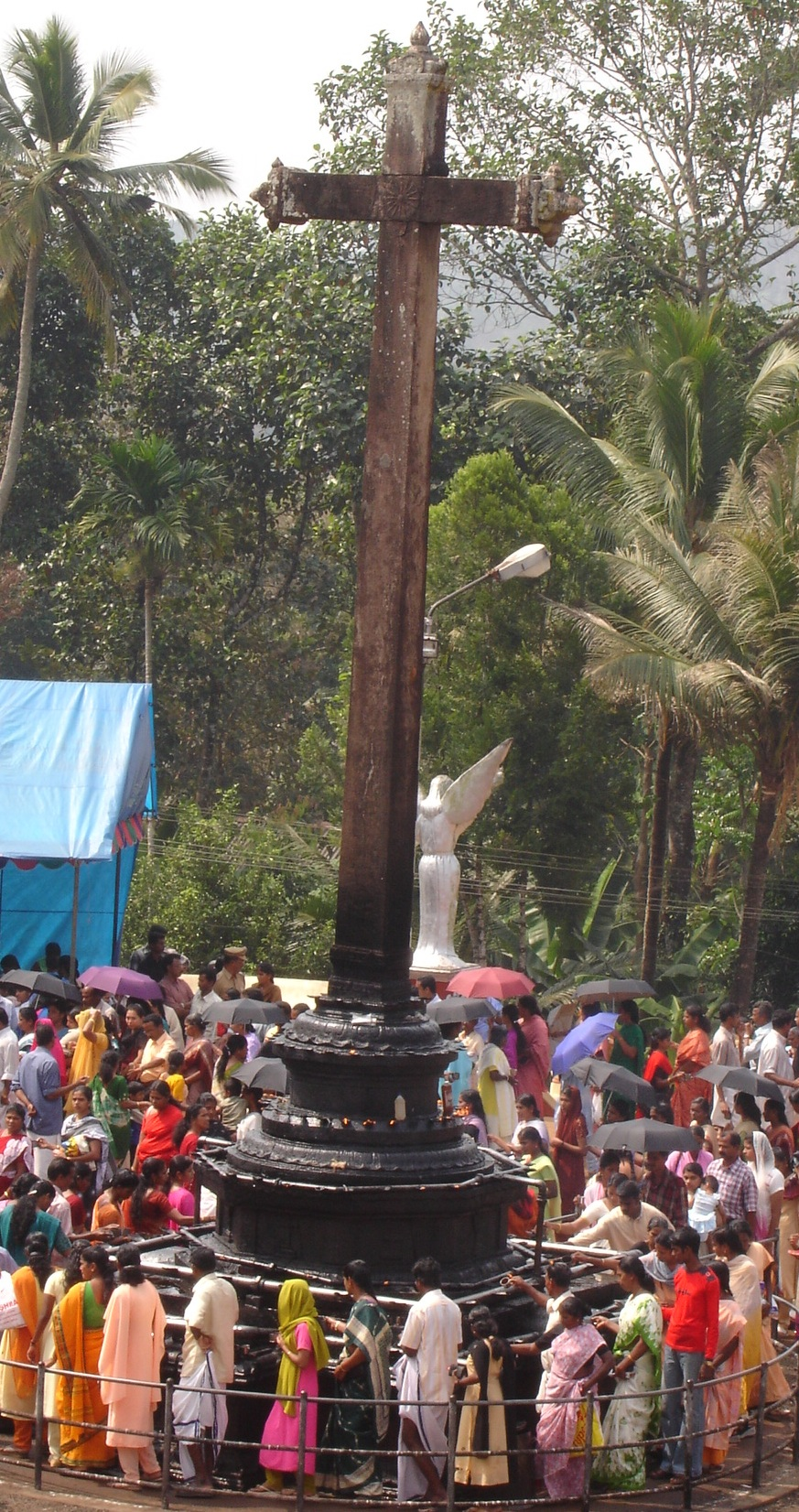 The Open Air Rock Cross in front of the Syro Malabar Catholic Church- Martha Mariam Church Kuravilangad